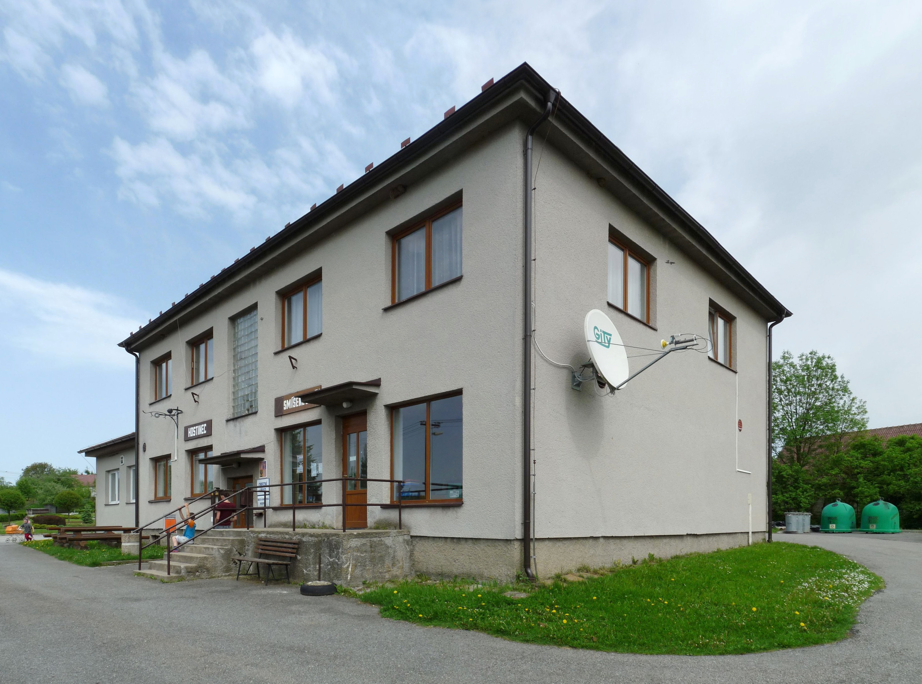 Municipal office building in the village of Hojovice, Pelhřimov District, Vysočina Region, Czech Republic.